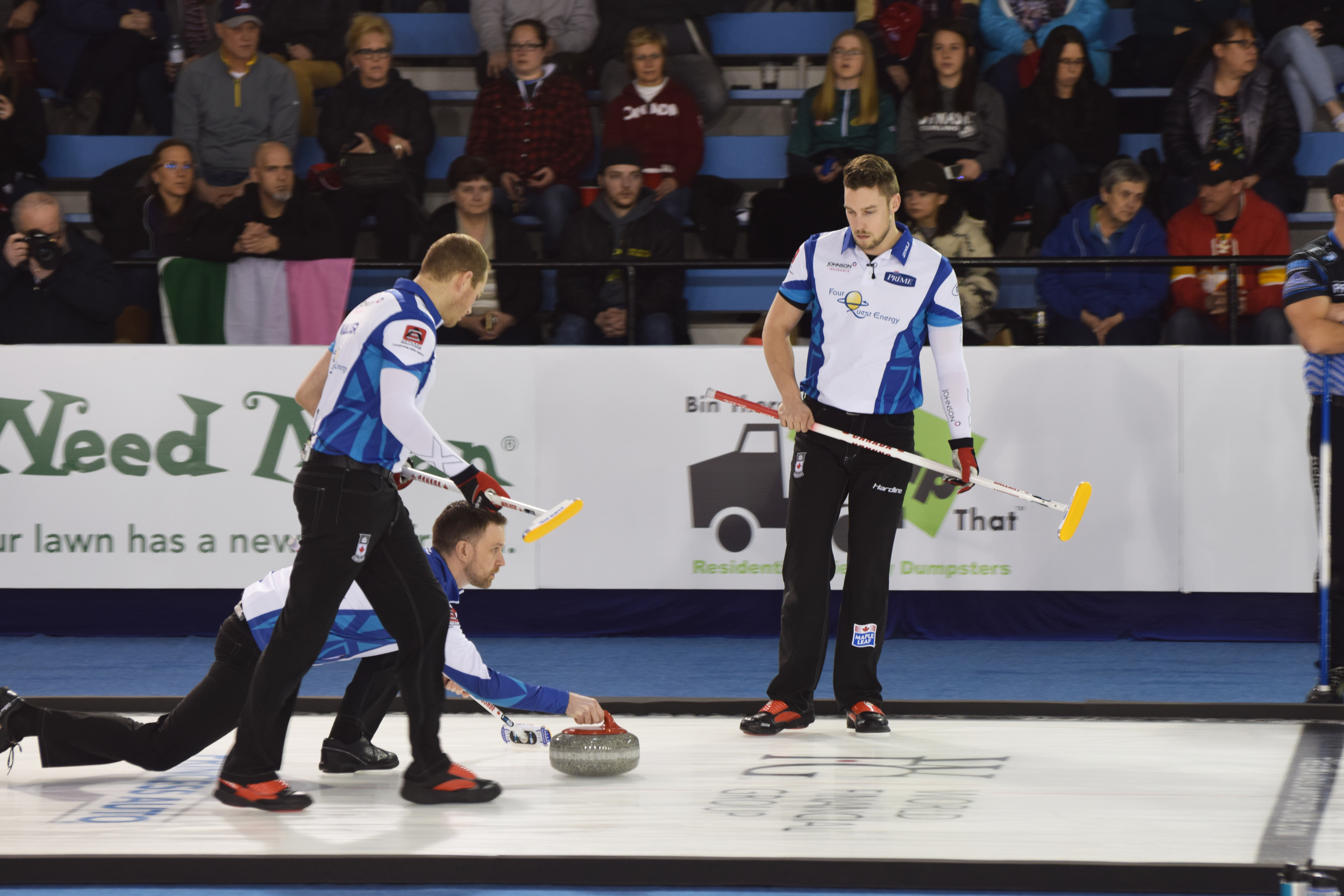 Brad Gushue delivering a rock with Brett Gallant and Geoff Walker sweeping at the 2018 Elite 10 Grand Slam of Curling event in Winnipeg, Manitoba.